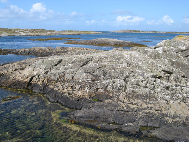 Bay with islands The northern tip of Golam Island can be seen at the left of the image, and the smaller islands of Fraochoilean Mor and Beag appear to cut off access to the open sea completely. A very well-enclosed bay is thus formed to the west of Lettermullan, the northern side being closed by An Chnapach.